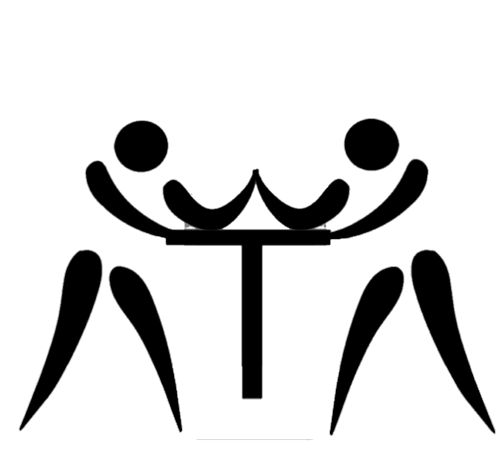 Armwrestling